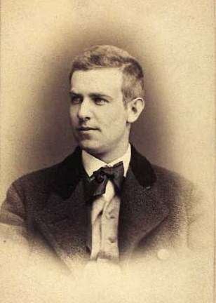 Rudolf Bissen (1846-1911), Danish landscape painter